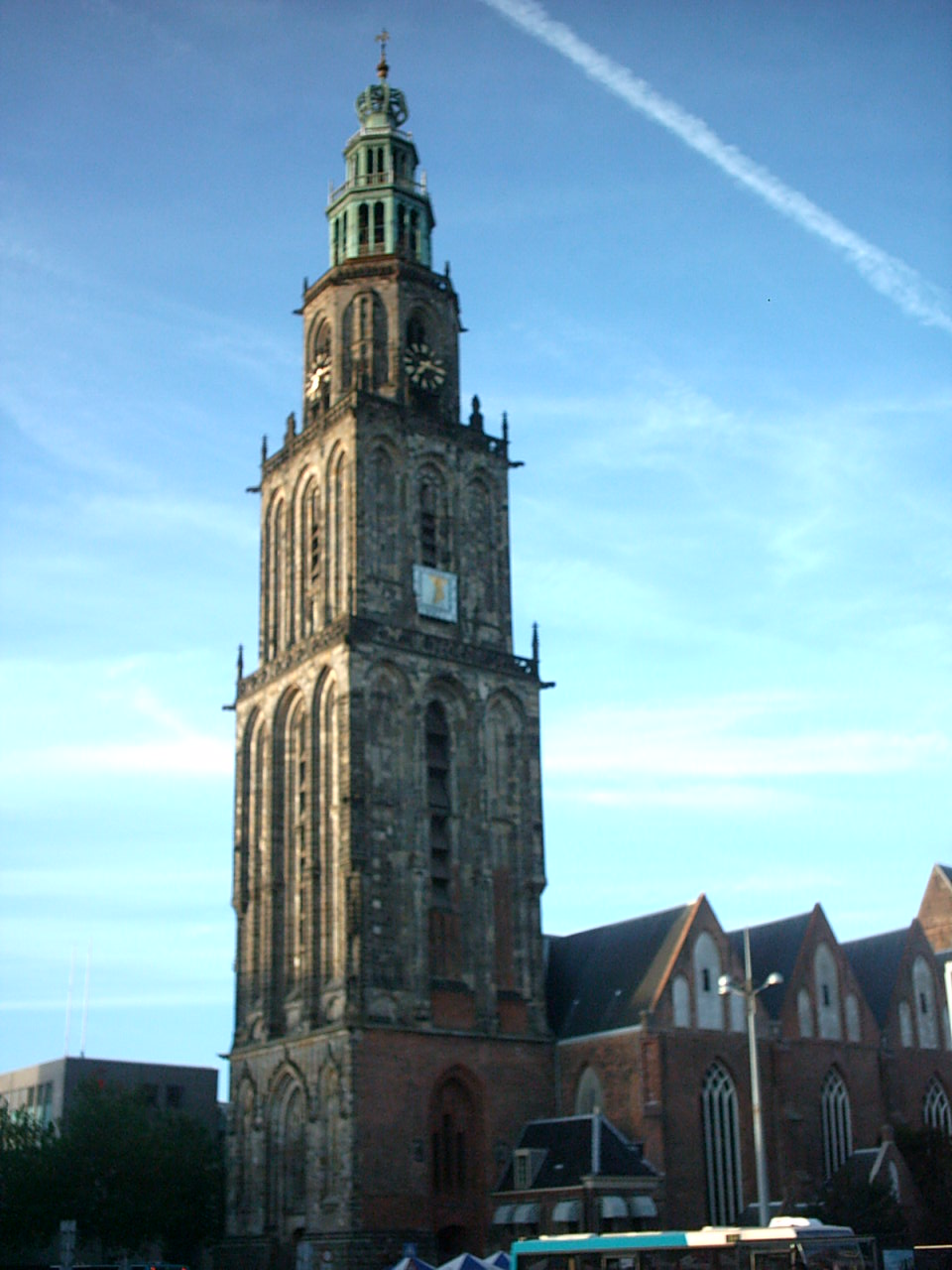 Martini tower (Martinitoren) seen from across the Grote Markt, Groningen, Netherlands.